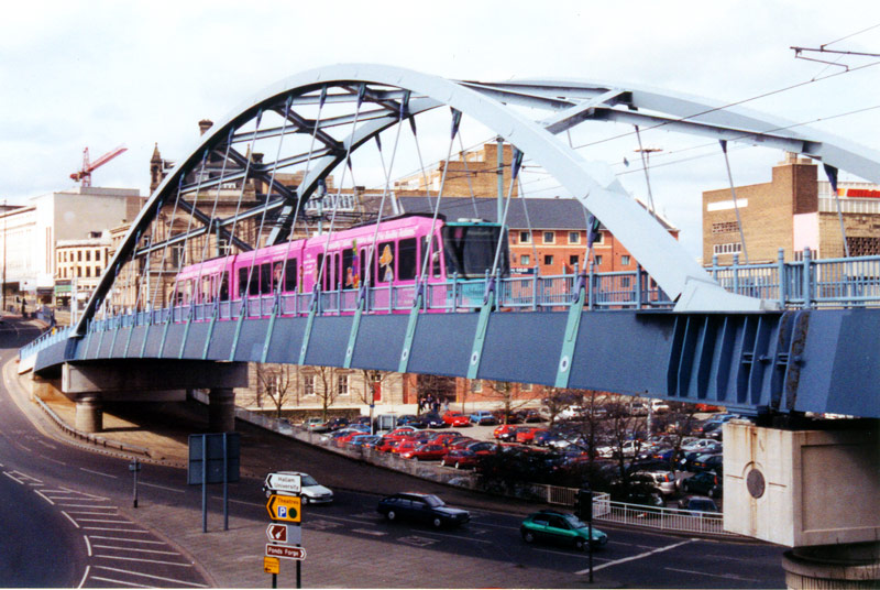 Park Square Bridge, Sheffield, England. ©2002, Jeremy Atherton.